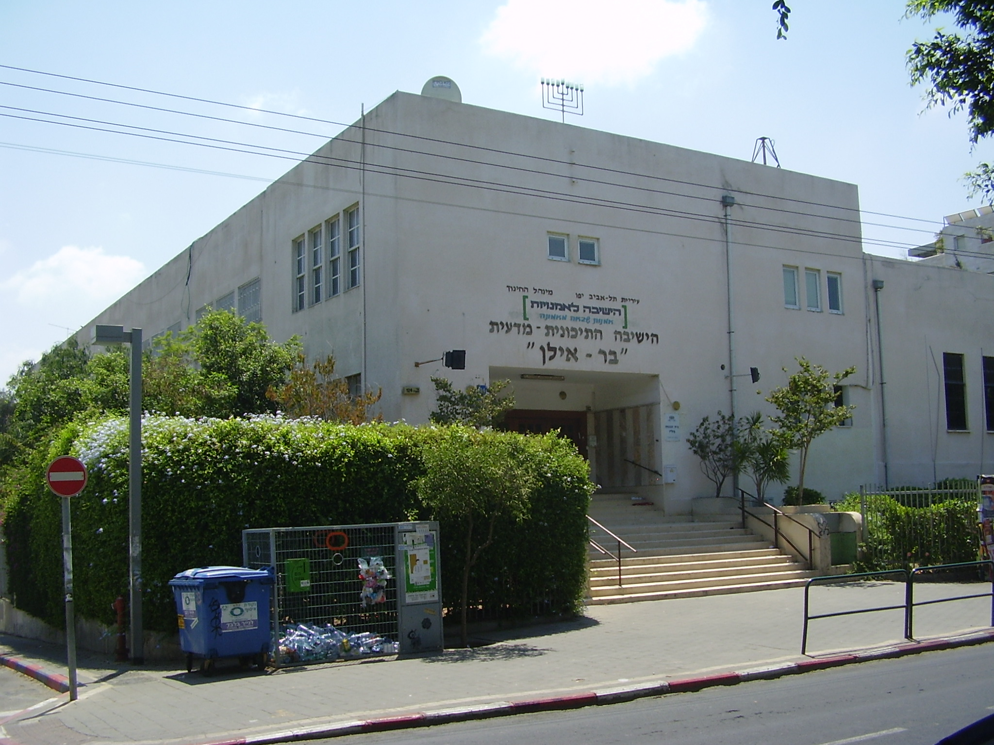 Yeshiva High School \"Bar - Ilan\" in Tel Aviv